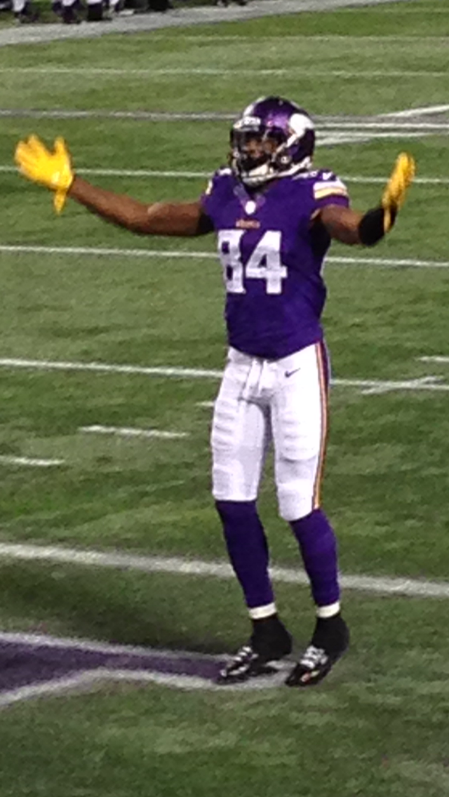 Cordarrelle Patterson of the Minnesota Vikings